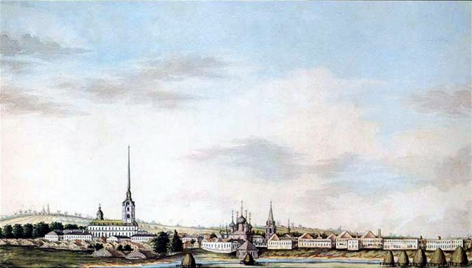 Ivan Belonogov. Yaroslavl Large Manufactory.